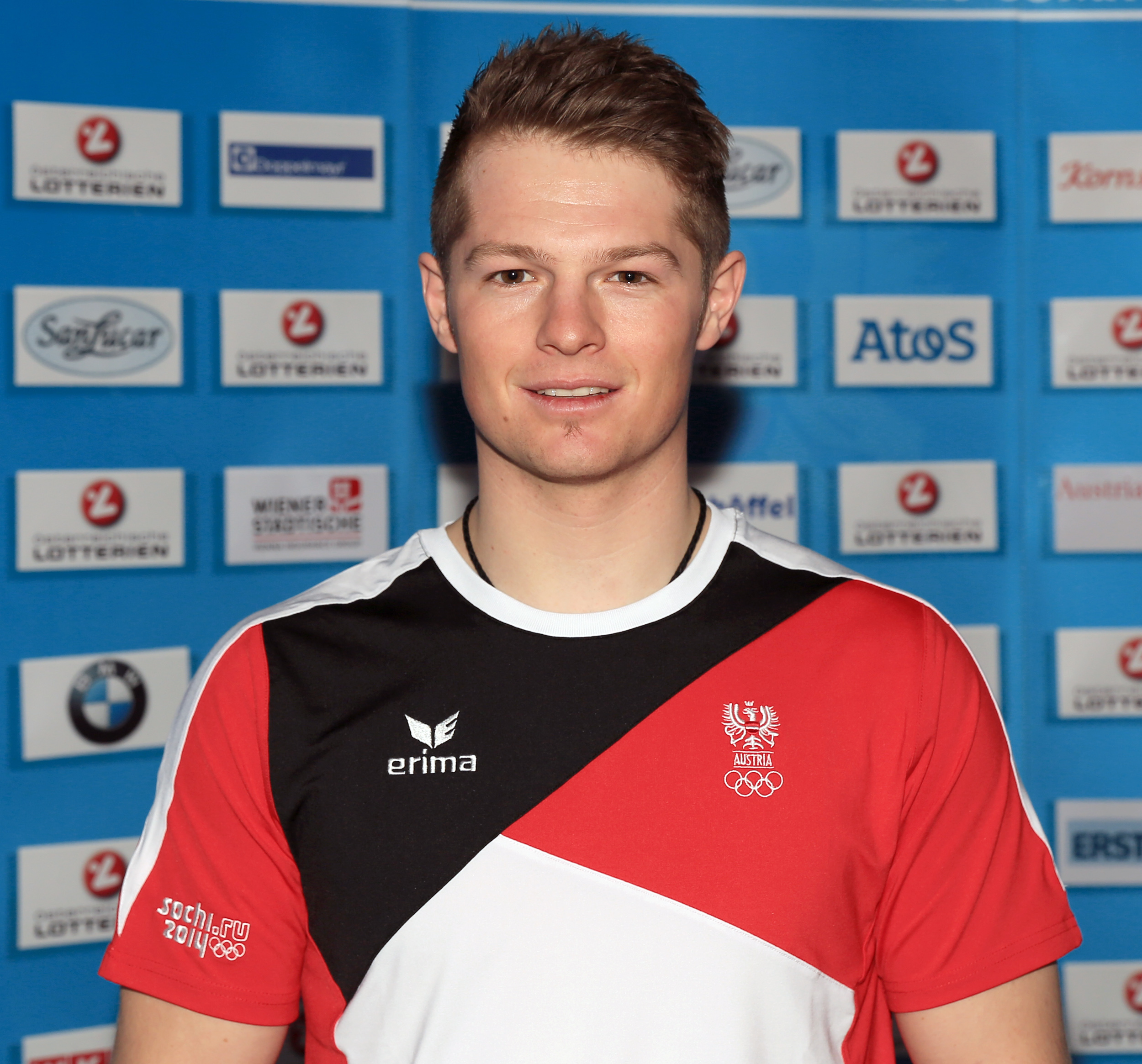 Christoph Wahrstötter at the outfitting of the Austrian team for the 2014 Winter Olympics (Hotel Marriott in Vienna, Austria.